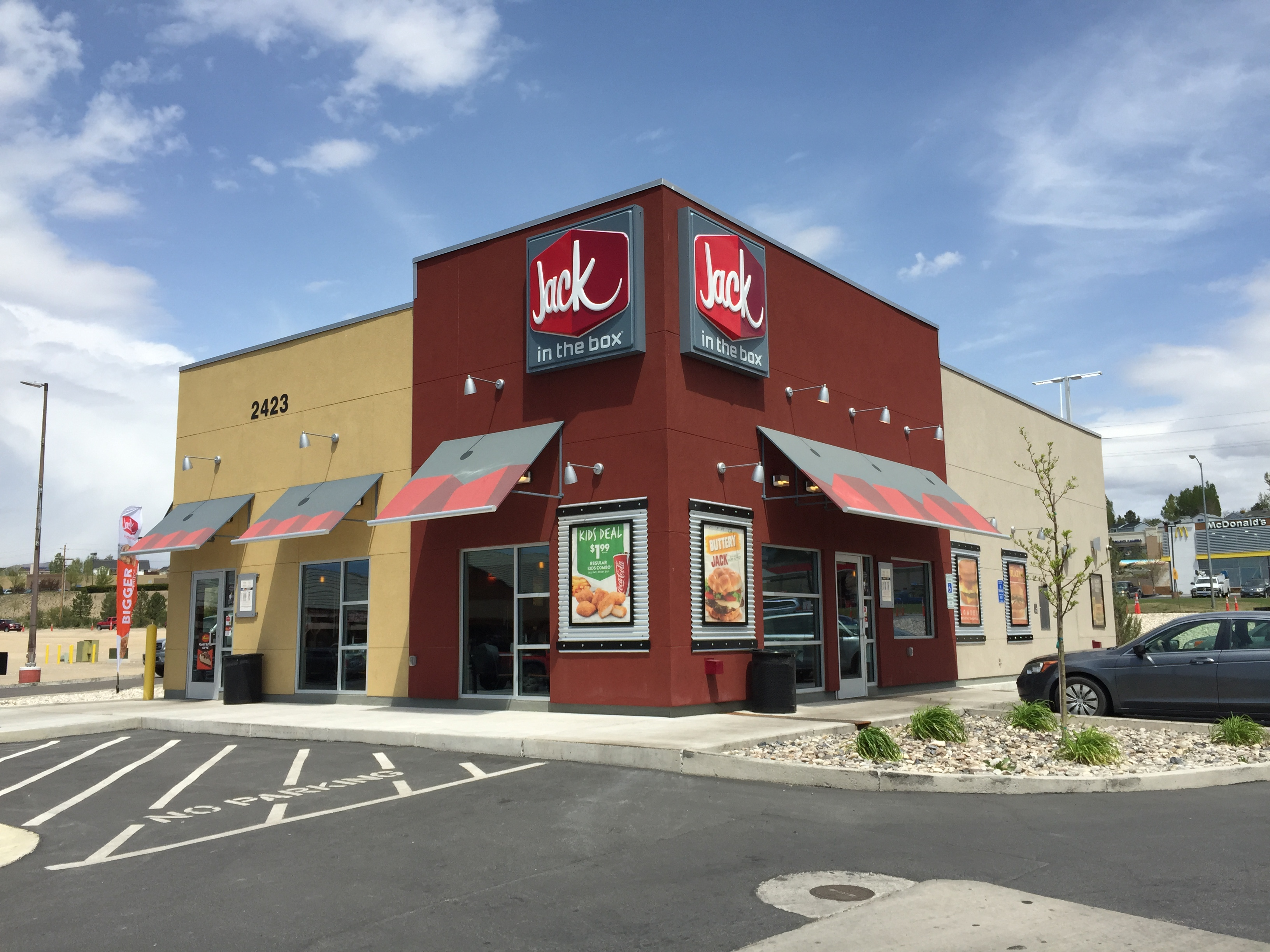 Jack In The Box in Elko, Nevada